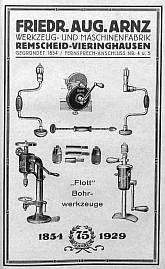 Anzeige 1929